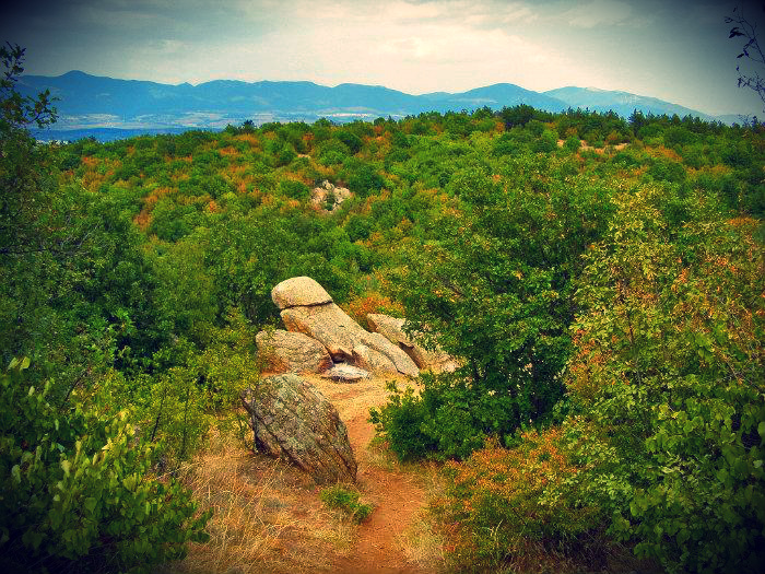 Бащин камък Буба Кая